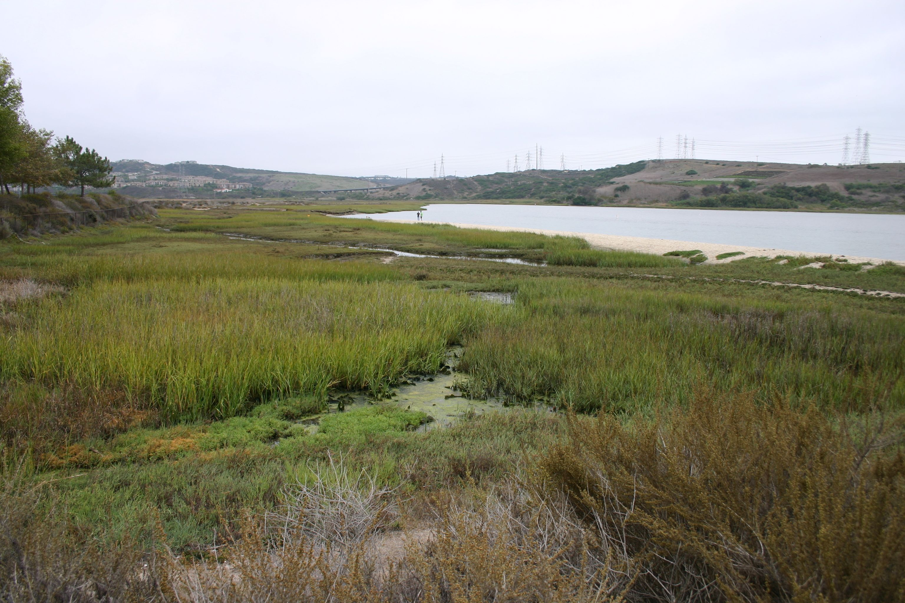 Looking to the east, from near the eastern end of the Agua Hedionda Lagoon, to estuary and wetlands habitats. Located on the coast in Carlsbad, San Diego County, Southern California. The lagoon is habitat for the endangered Tidewater goby (Eucyclogobius newberryi) fish.